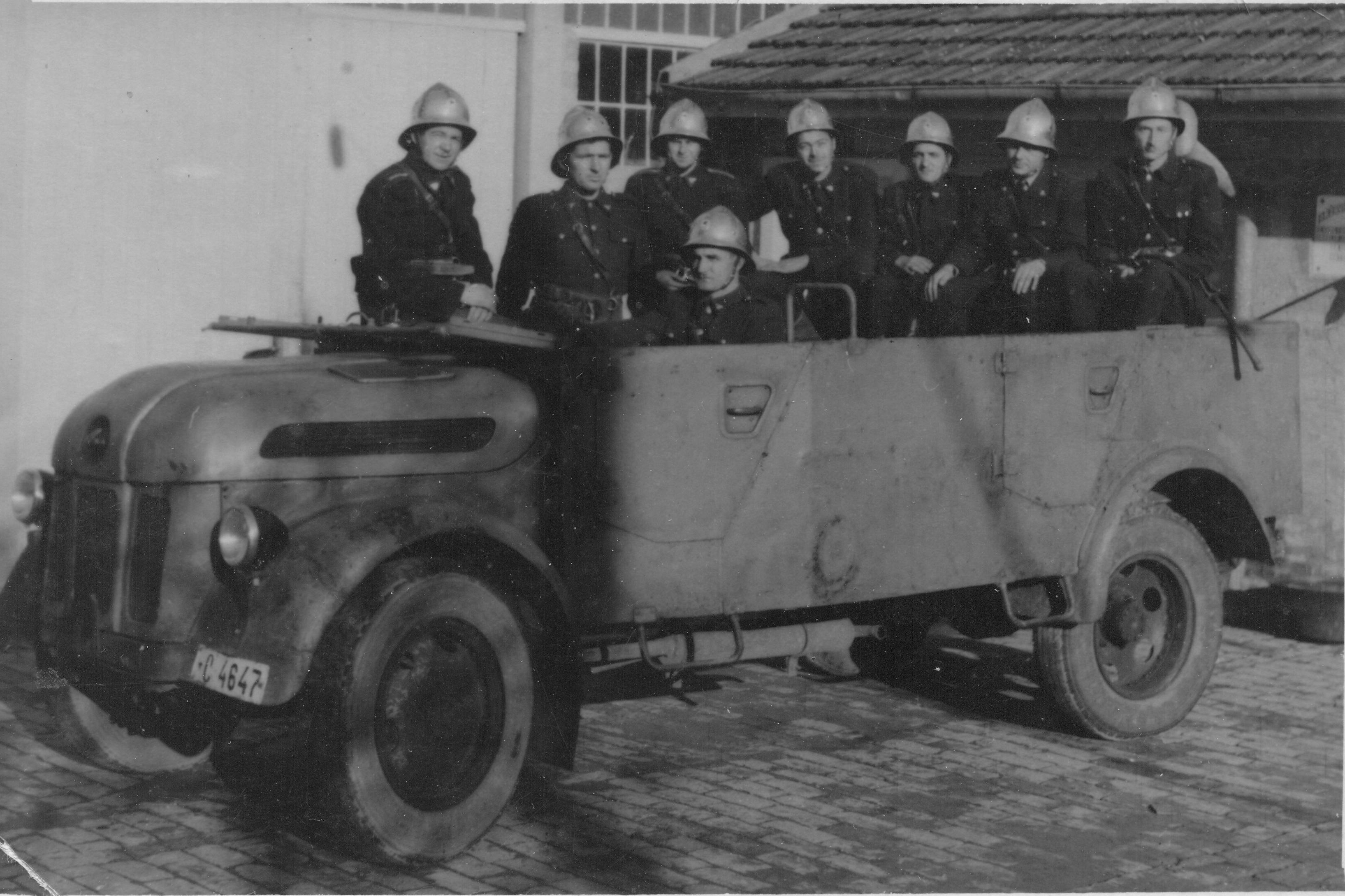 Group photography framed in gray color. The photographs are the founders of the professional fire department Vrbas on the first firefighter "Styrian" in 1955. In the corner are the names of eight firefighters.